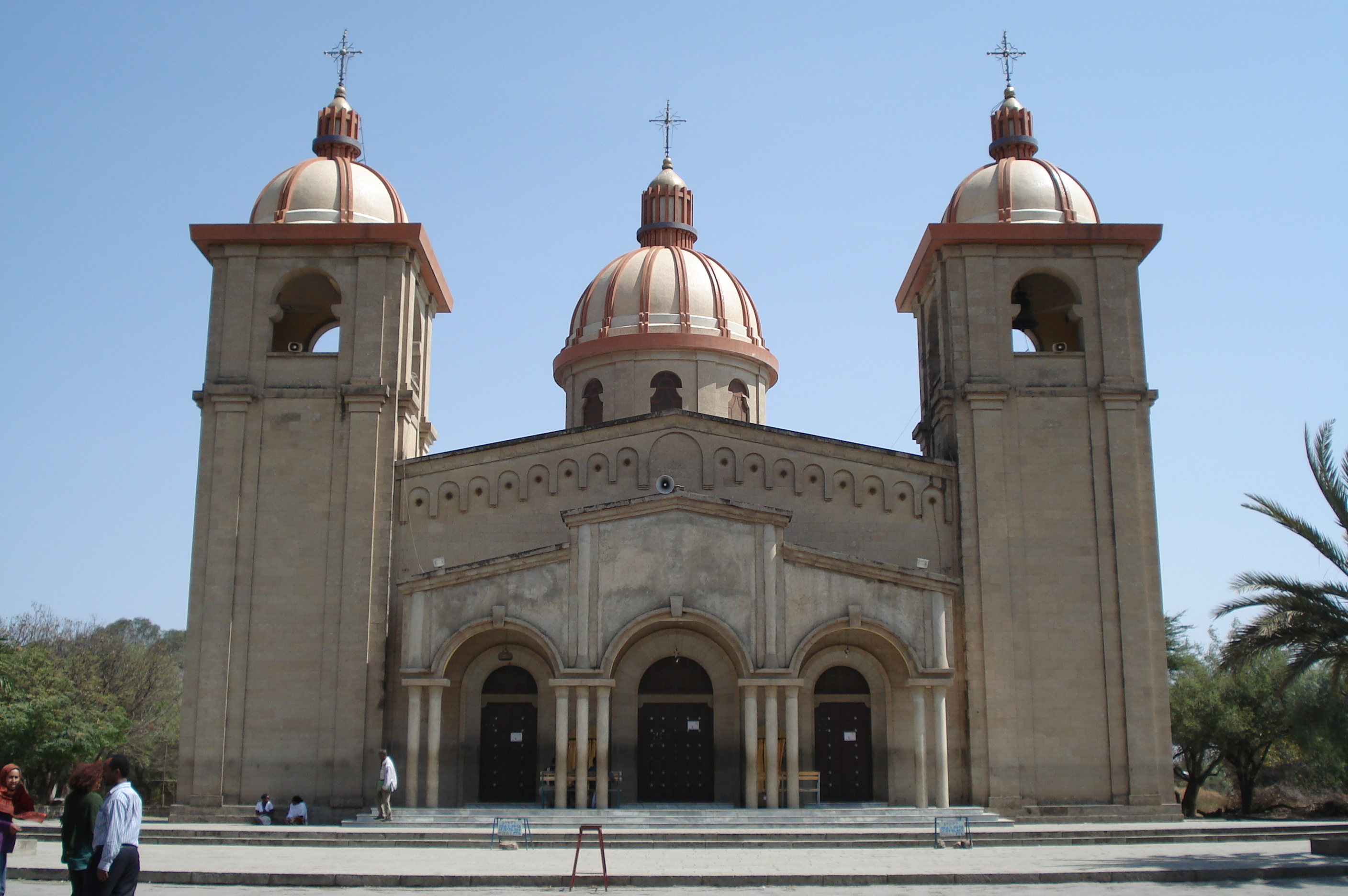 January 12, 2010. Adama (Nazareth), Ethiopia. Saint Mary's Ethiopian Orthodox Church.